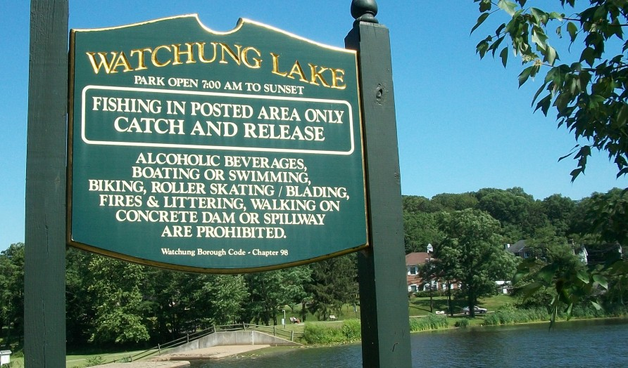 The sign at Watchung Lake, New Jersey advises people they can catch fish but must release them, and prohibits various activities.